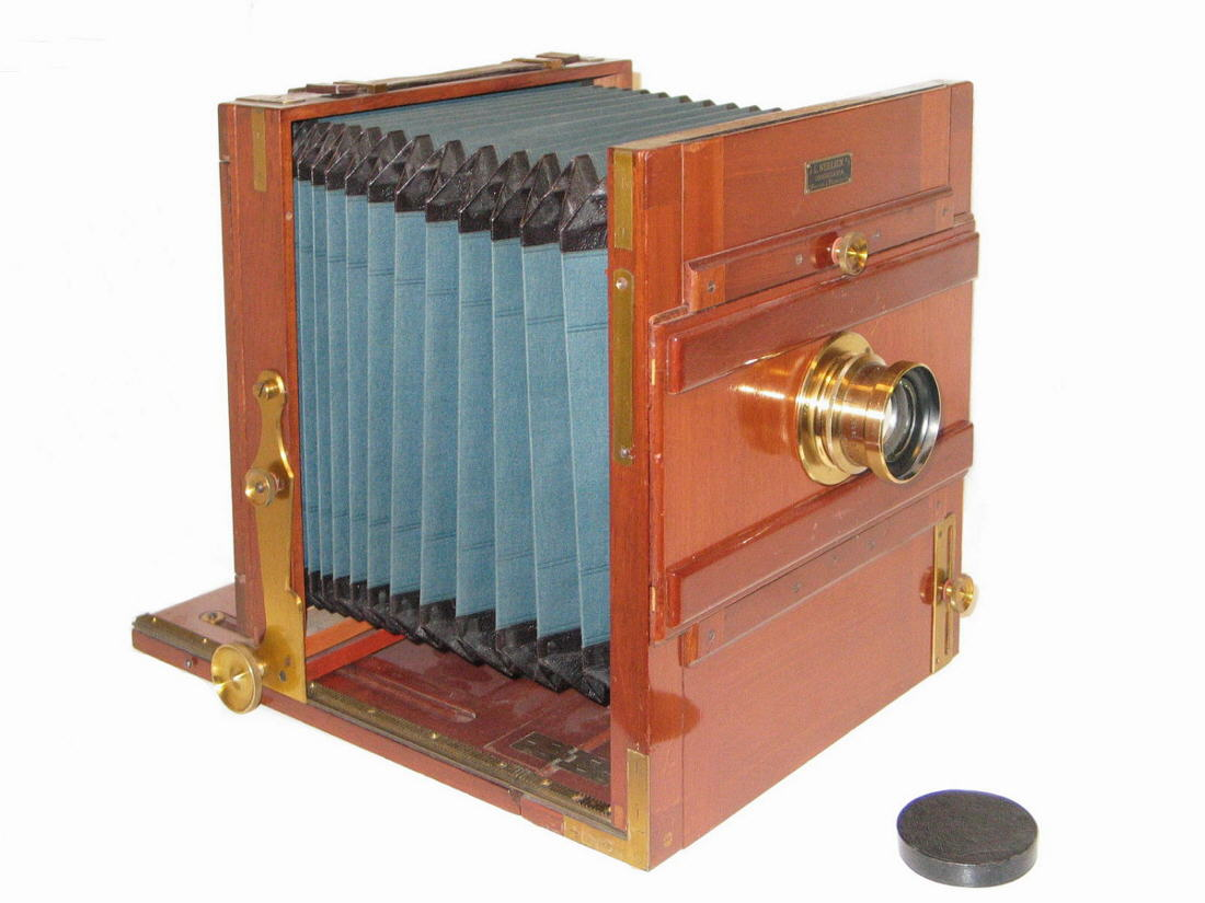 Reisekamera 18 x 24cm. Manufactured about 1902 by Ernst Herbst & Firl, Görlitz for Ernst Erneman, Dresden as the Globus, but not marked as such.